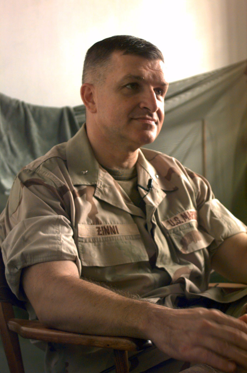 An informal portrait of Brig. Gen. Anthony Charles Zinni, USMC, J3 for the Combined Unified Task Force (CUTF) Somalia.